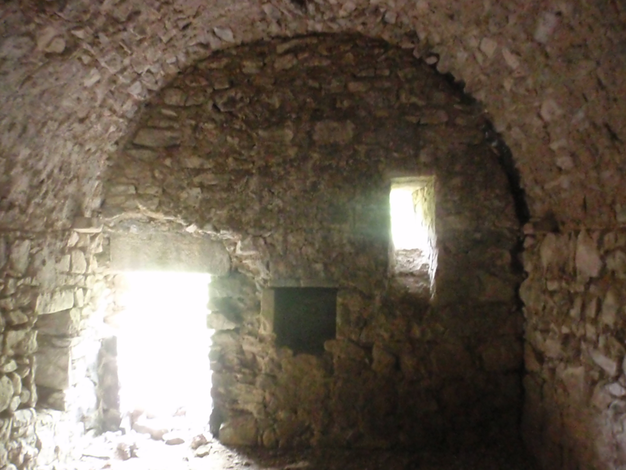 Yeghishe Arakyal Monastery. Location: Tartar district, Azerbaijan; Martakert district, Republic of Mountainous Karabakh (Artsakh).